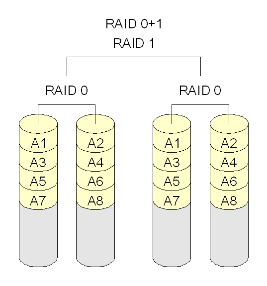 Diagram of 4 drives configured RAID 0+1, in which 2 sets of two drives are configured in RAID 0, then configured together in RAID 1